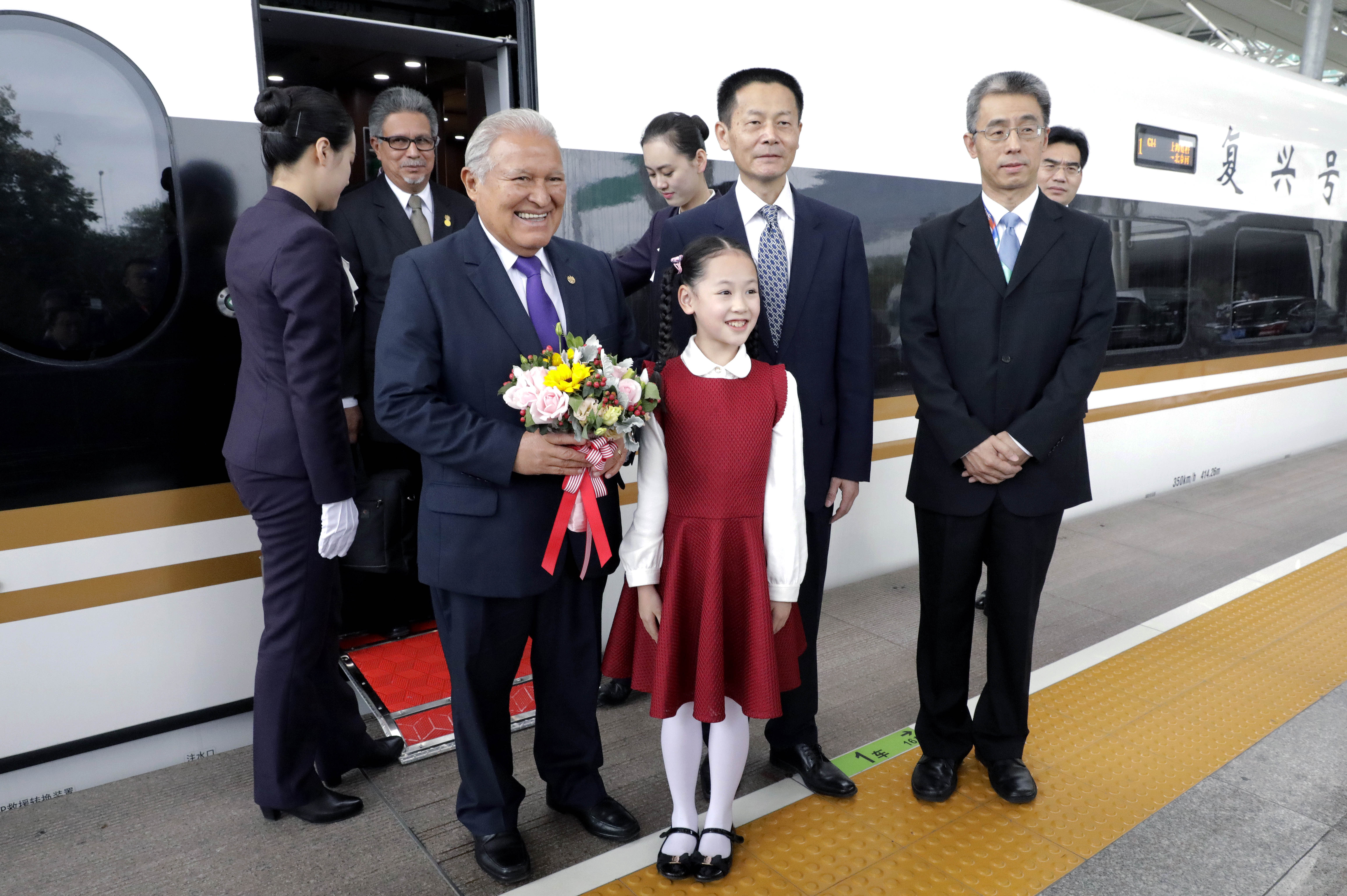 Arribo a Shanghai para China International Import Export, CIIE.